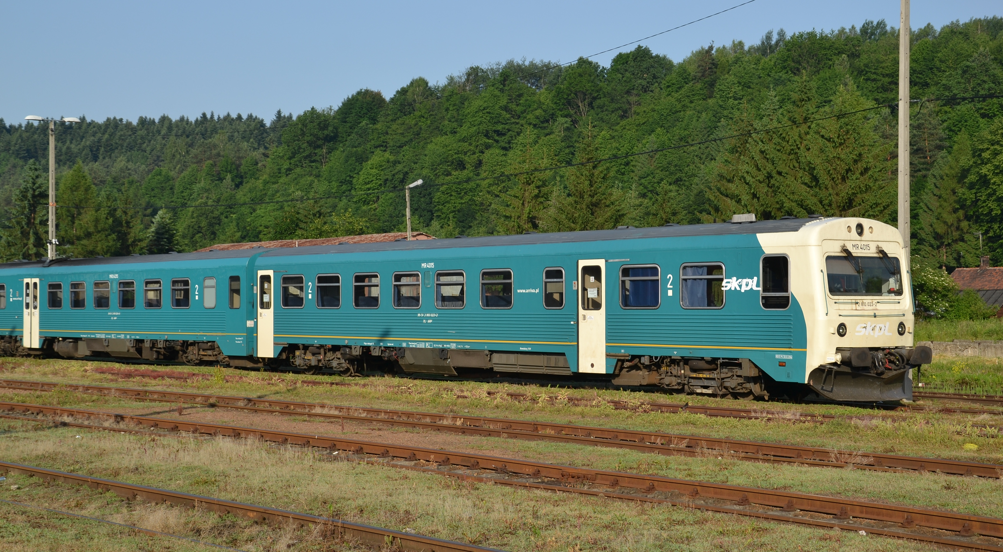 DSB class MR in Zagórz, Poland